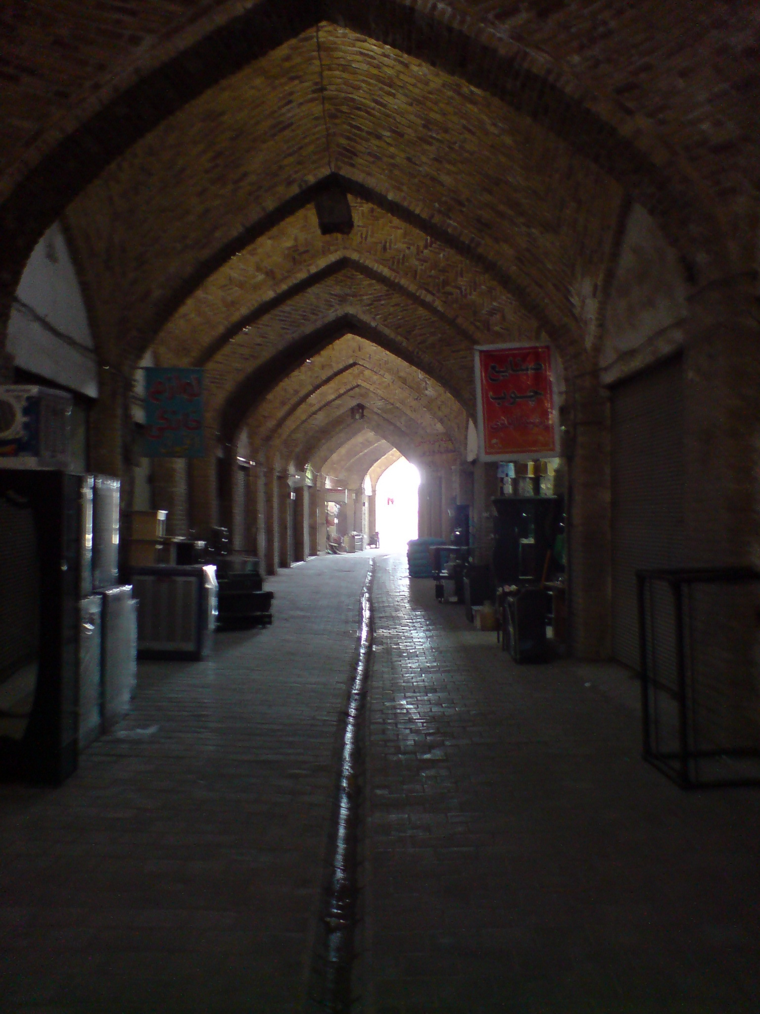 Roofed_Bazaar_of_nishapur